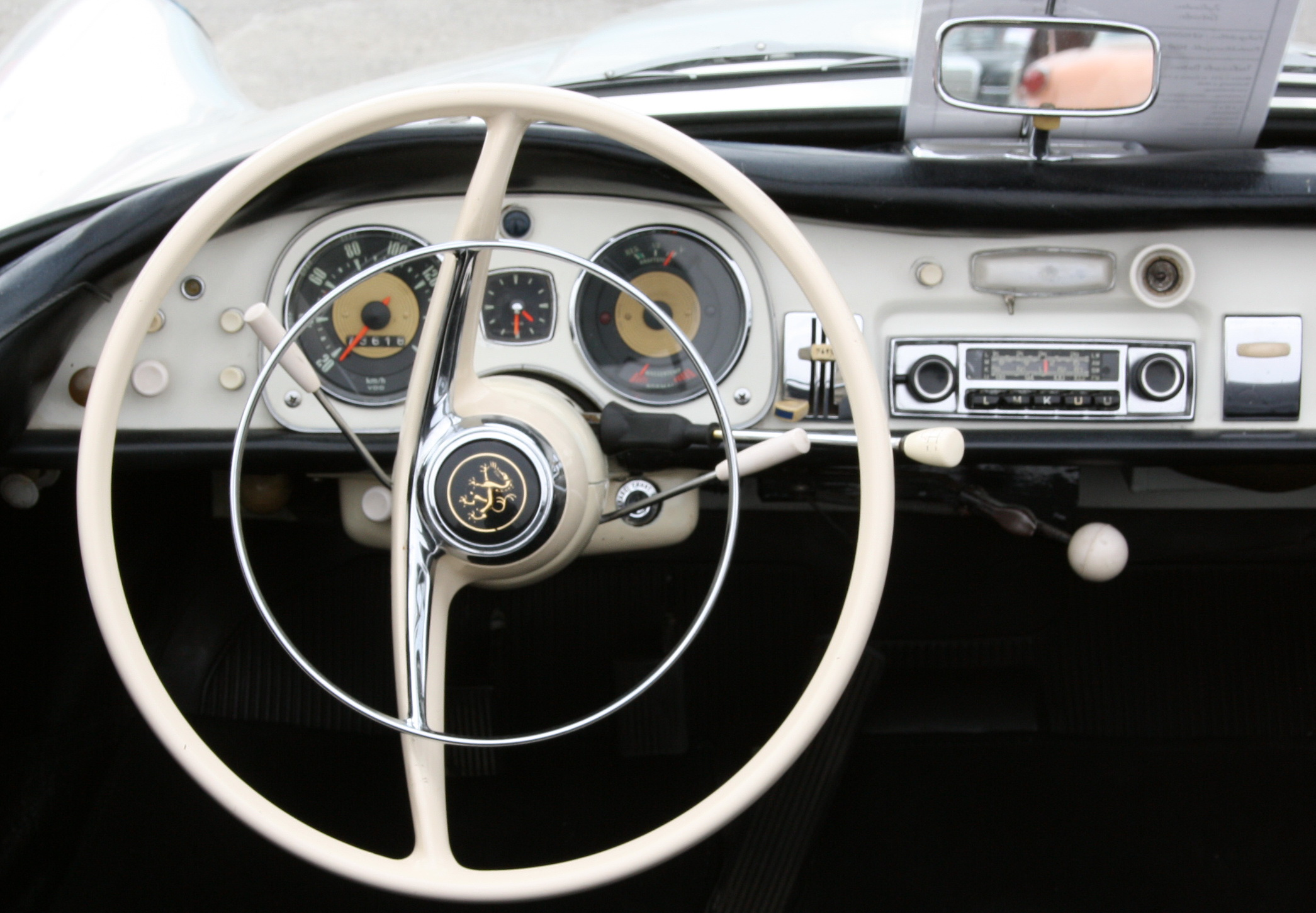 DKW 1000 SP Year 1963